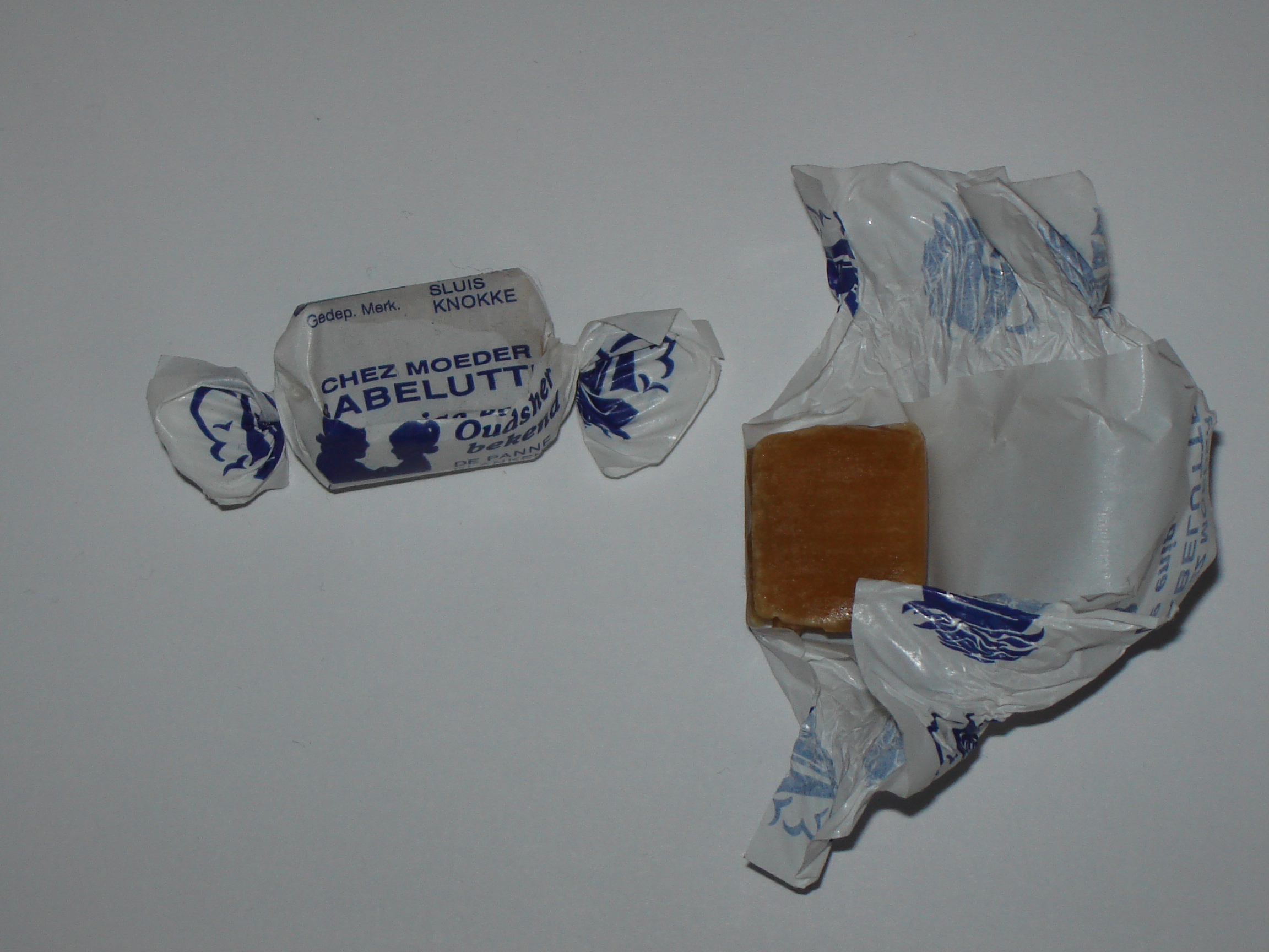 Babelutte, traditional butter confection by Moeder Babelutte. Belgium